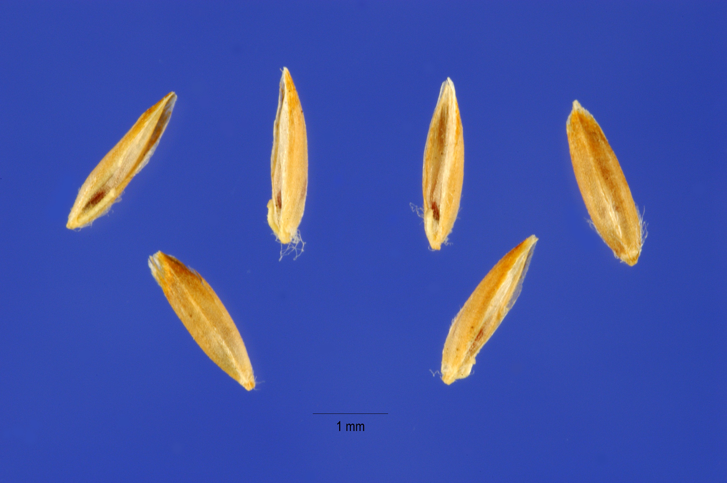 Poa palustris seeds